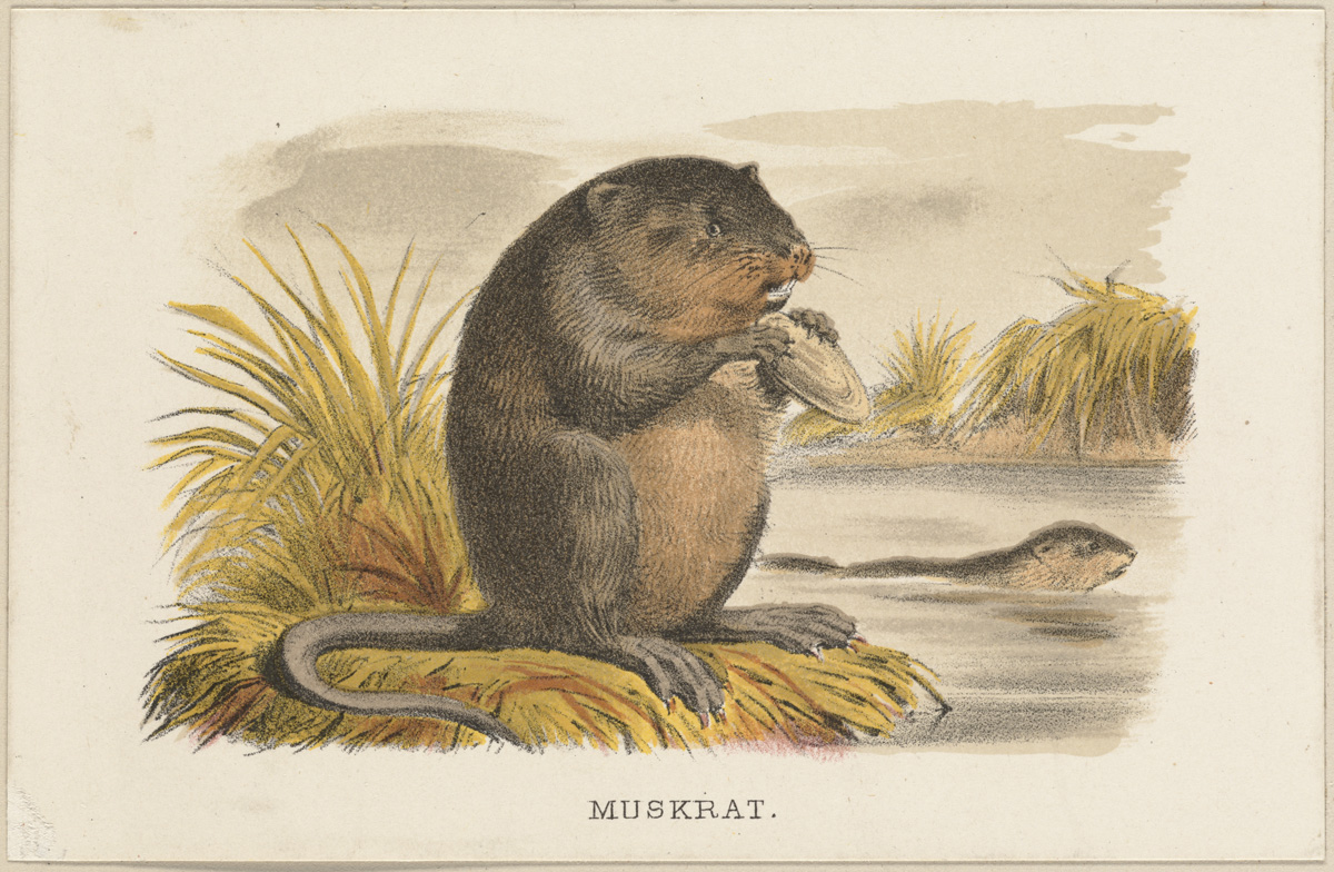 File name: 07_11_001205 Title: Muskrat Creator/Contributor: L. Prang & Co. (publisher) Date issued: 1861-1897 (approximate) Copyright date: Physical description note: Genre: Chromolithographs Location: Boston Public Library, Print Department Rights: No known restrictions Flickr data on 2011-08-04: Camera: Sinar AG Sinarback 54 FW, Sinar m License: CC BY 2.0 User: Boston Public Library BPL